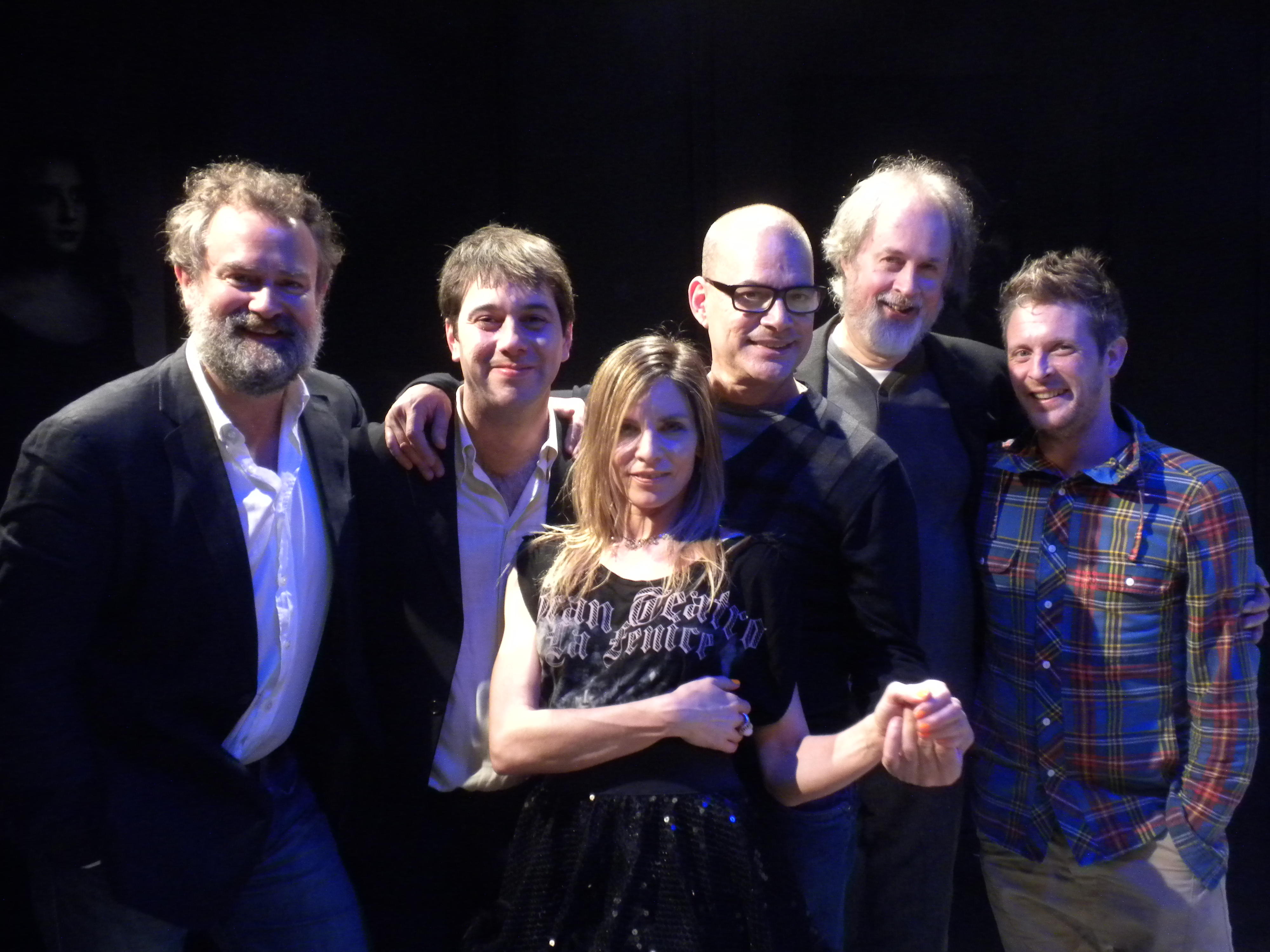 Giant Olive Gala